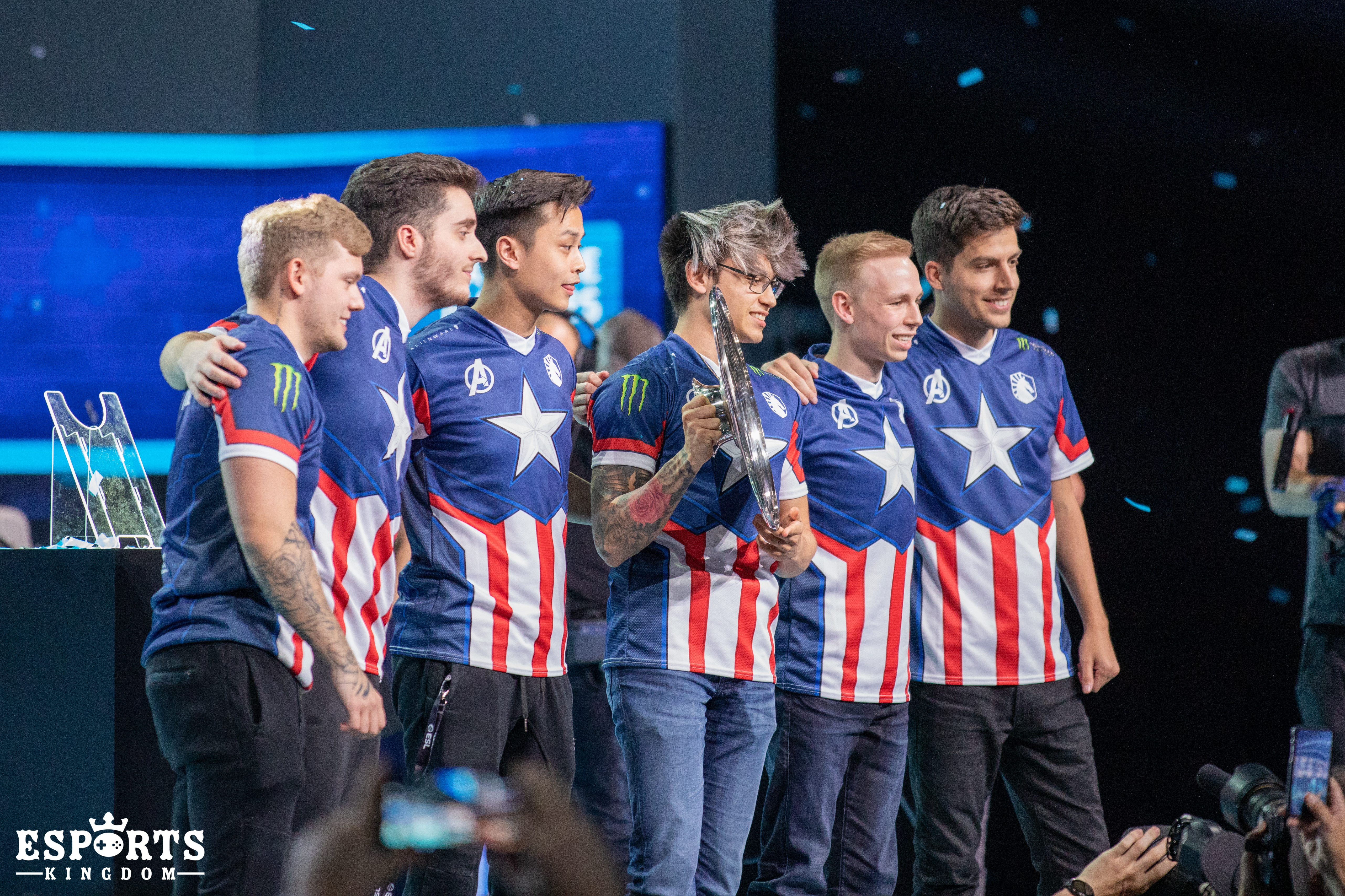 IEM Chicago Final Edits-0771